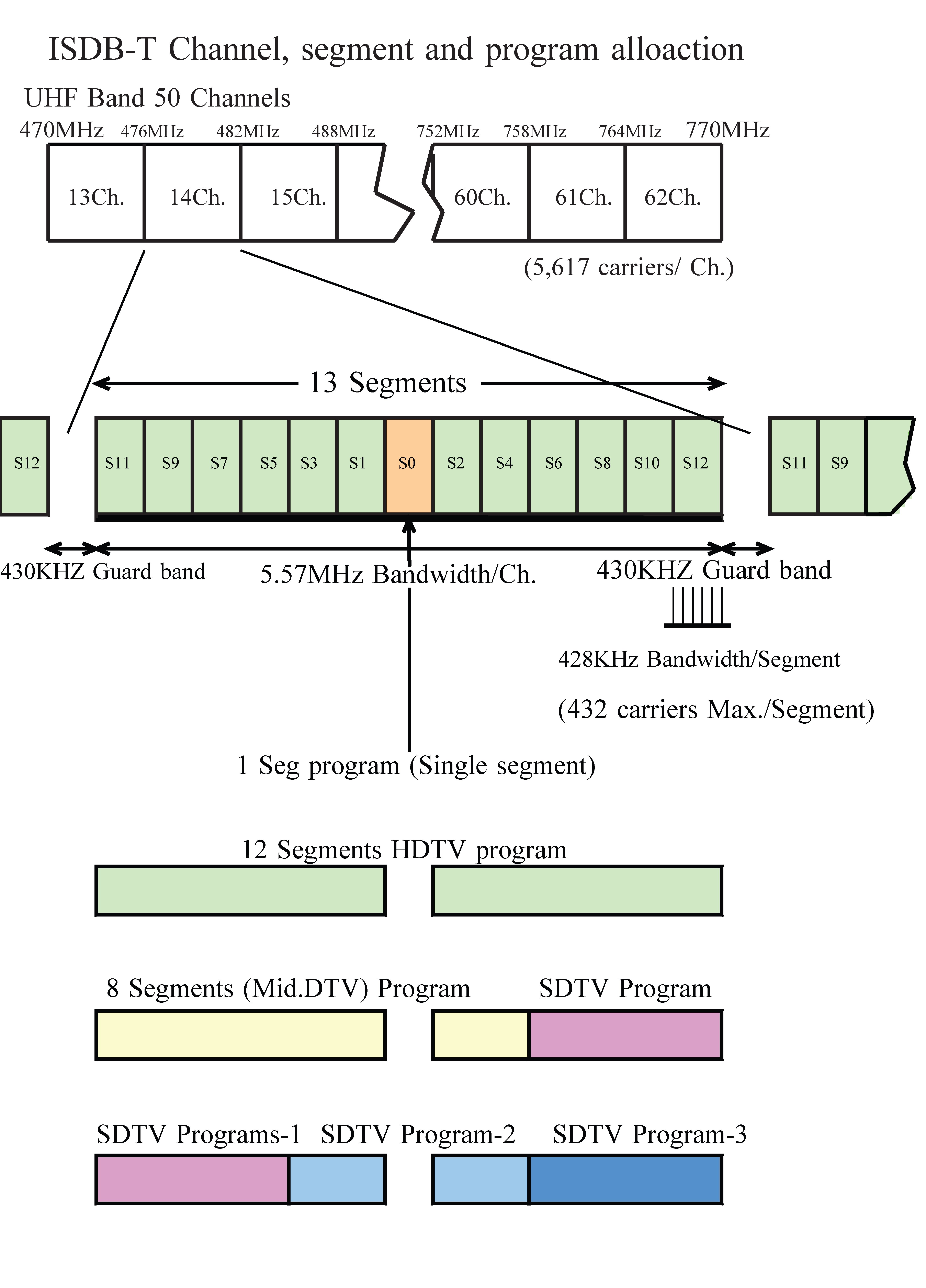 hierarical Treeview of ISDB-T, channels, Segments and arranging multiplr program broadcating. ( Revised for typo segment bandwidth 482KHz is wrong, 428KHz is correct bandwidth, correct to 5,167carroers/Ch. and clean dust.)